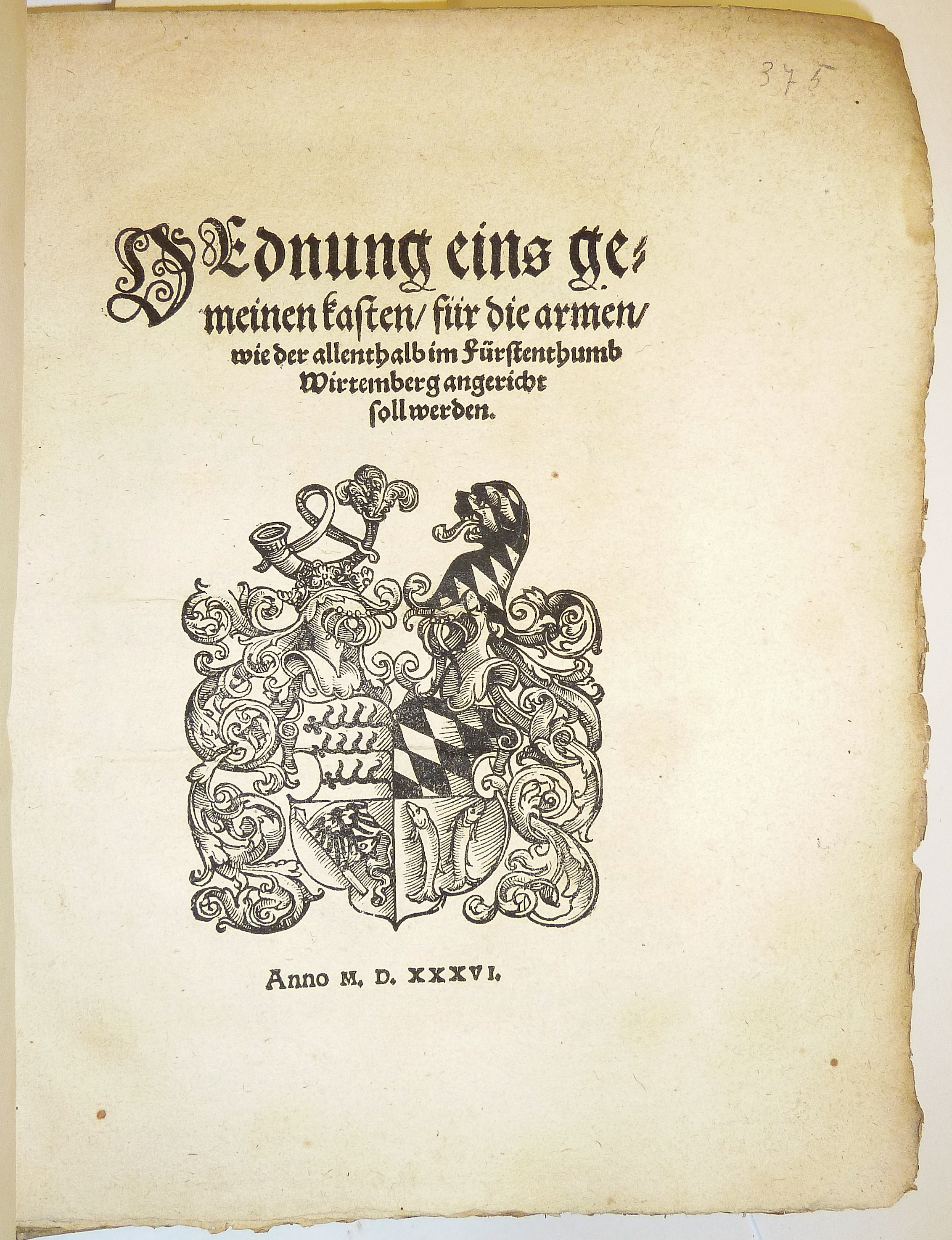 Woodcut coat of arms of Ulrich, Duke of Württemberg. Used by Ulrich Morhart of Tübingen. Established heading: Morhart, Ulrich, -1554 Penn Libraries call number: GC5 Ul704 536o